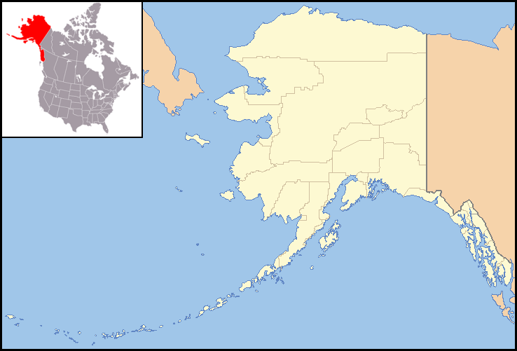 Use with En:Template:Location map USA Alaska, (N.B. Canada and Russia borders are approximate, from National Atlas)